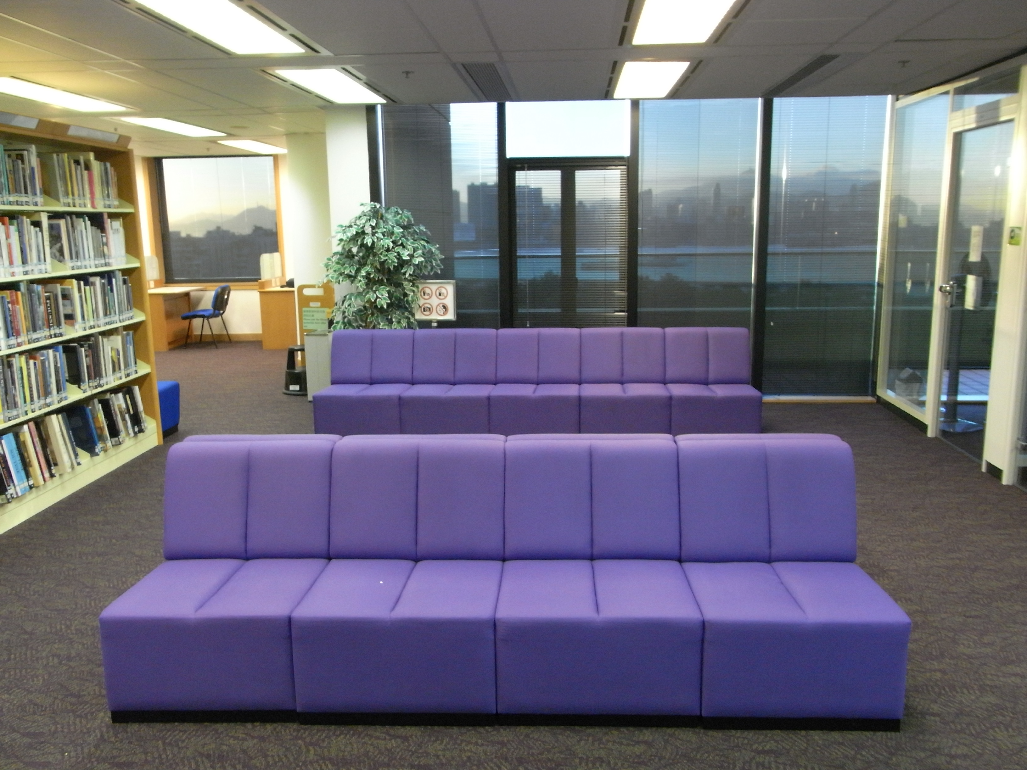 銅鑼灣香港中央圖書館